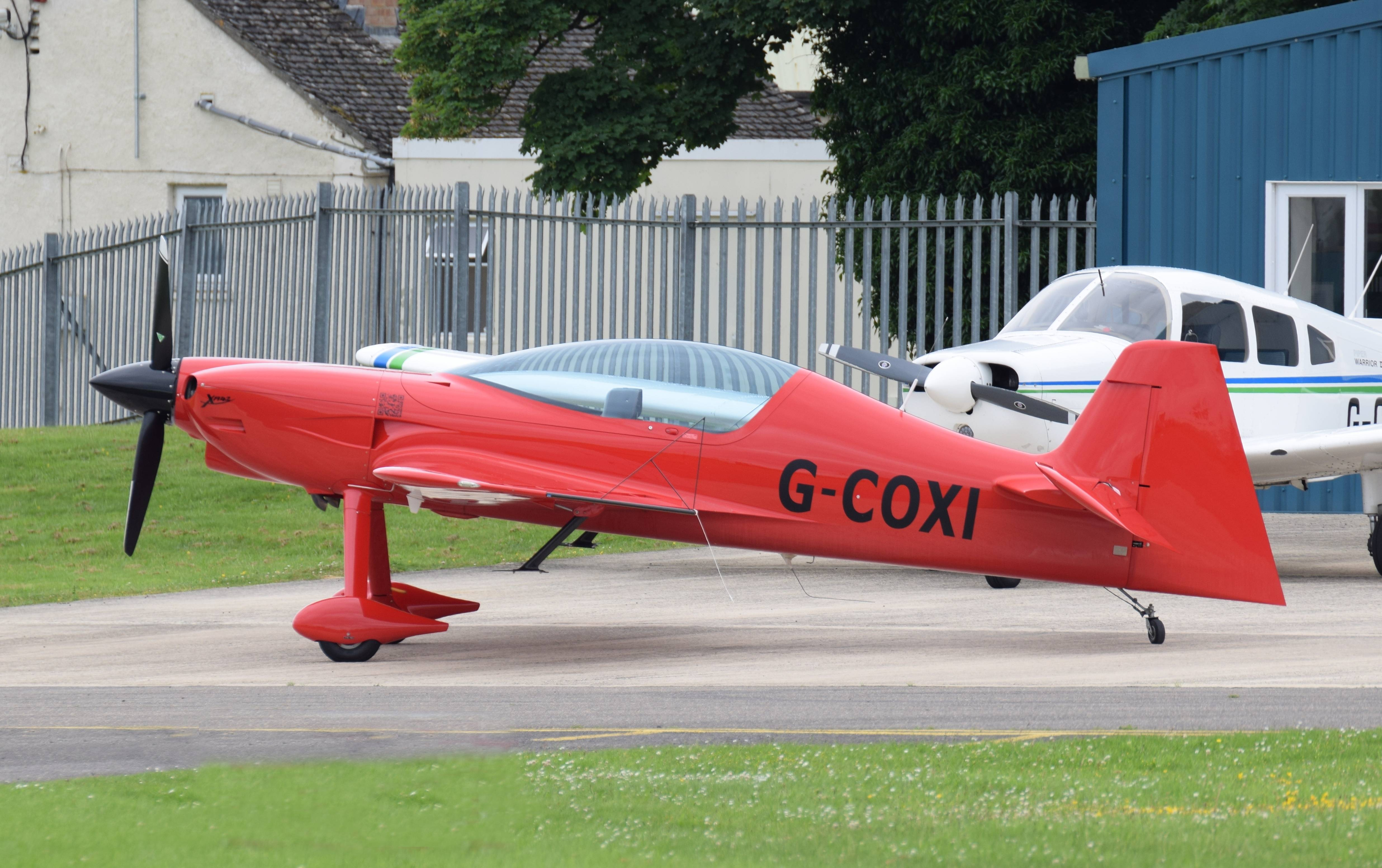 XtremeAir XA42 (also called the XtremeAir Sbach 342) at Cotswold Airport, Gloucestershire, England. UK registration G-COXI. Date of build 2013.